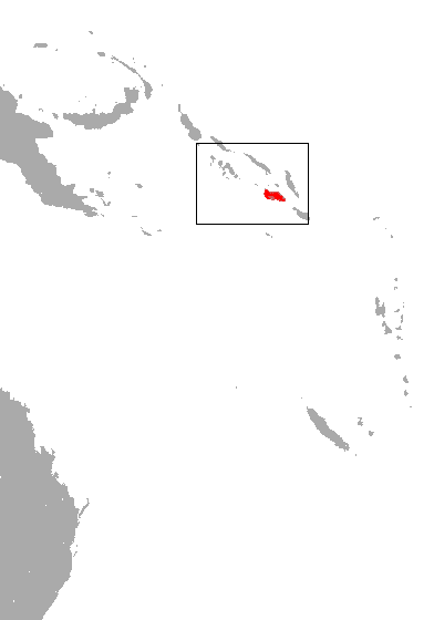 Guadalcanal Monkey-faced Bat (Pteralopex atrata) range